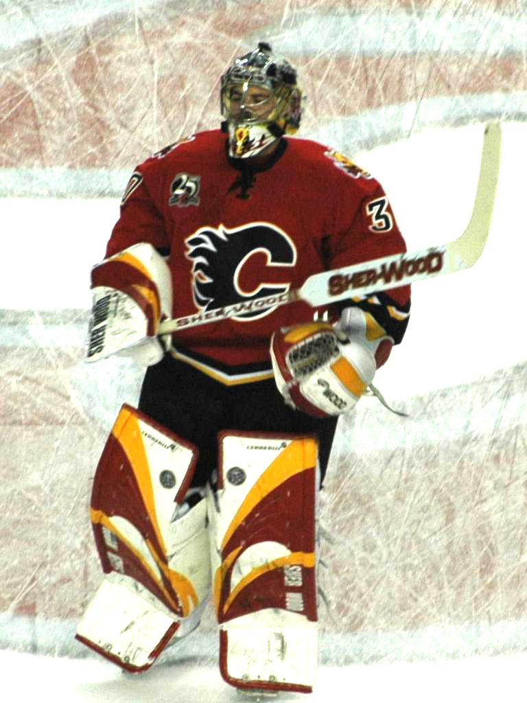 Philippe Sauve of the Calgary Flames, pre-game warmup, December 21, 2005